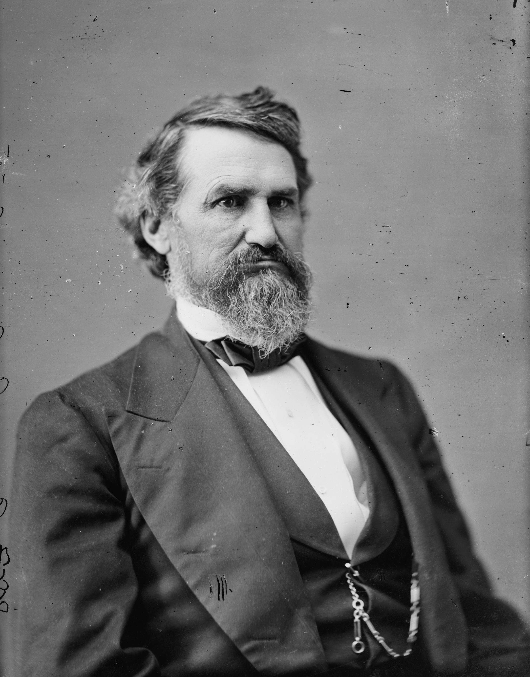 Omar D. Conger. Library of Congress description: "Conger, Hon. Senator Omar Dwight of Mich."